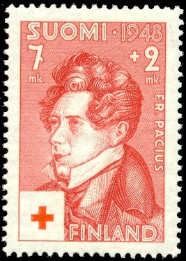 Postage stamp depicting German-Finnish composer Fredrik Pacius